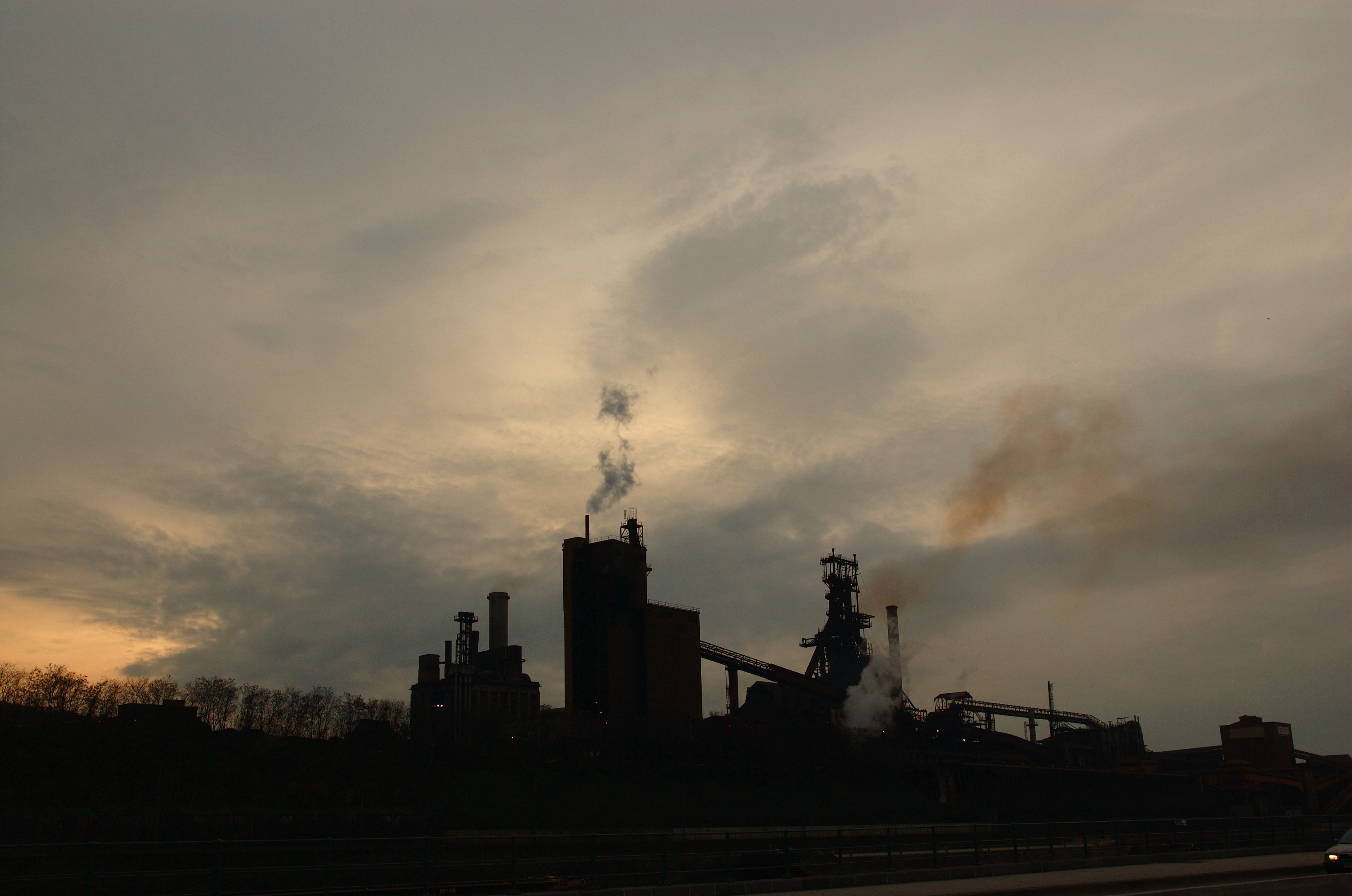 Cockerill-Sambre is a Belgian steel manufactor located in Seraing .